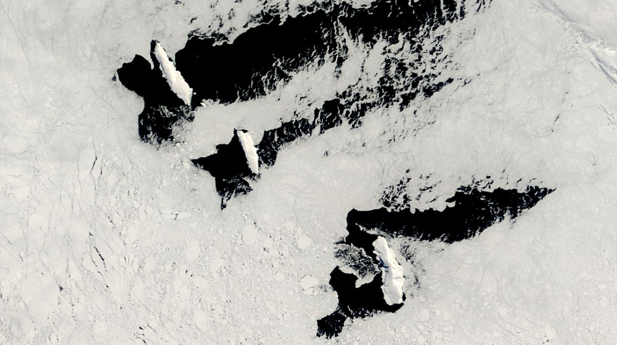 Terra MODIs image of Balleny Islands, Antarctica